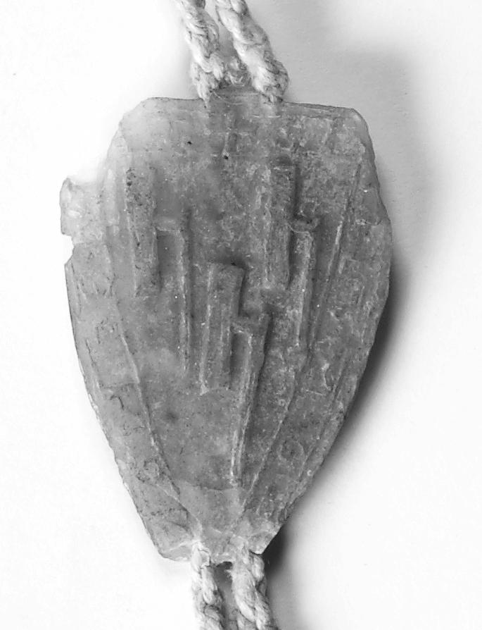 Coat of arms of the Knights of von Bartenstein. Seal of a deed of gift from year 1234.